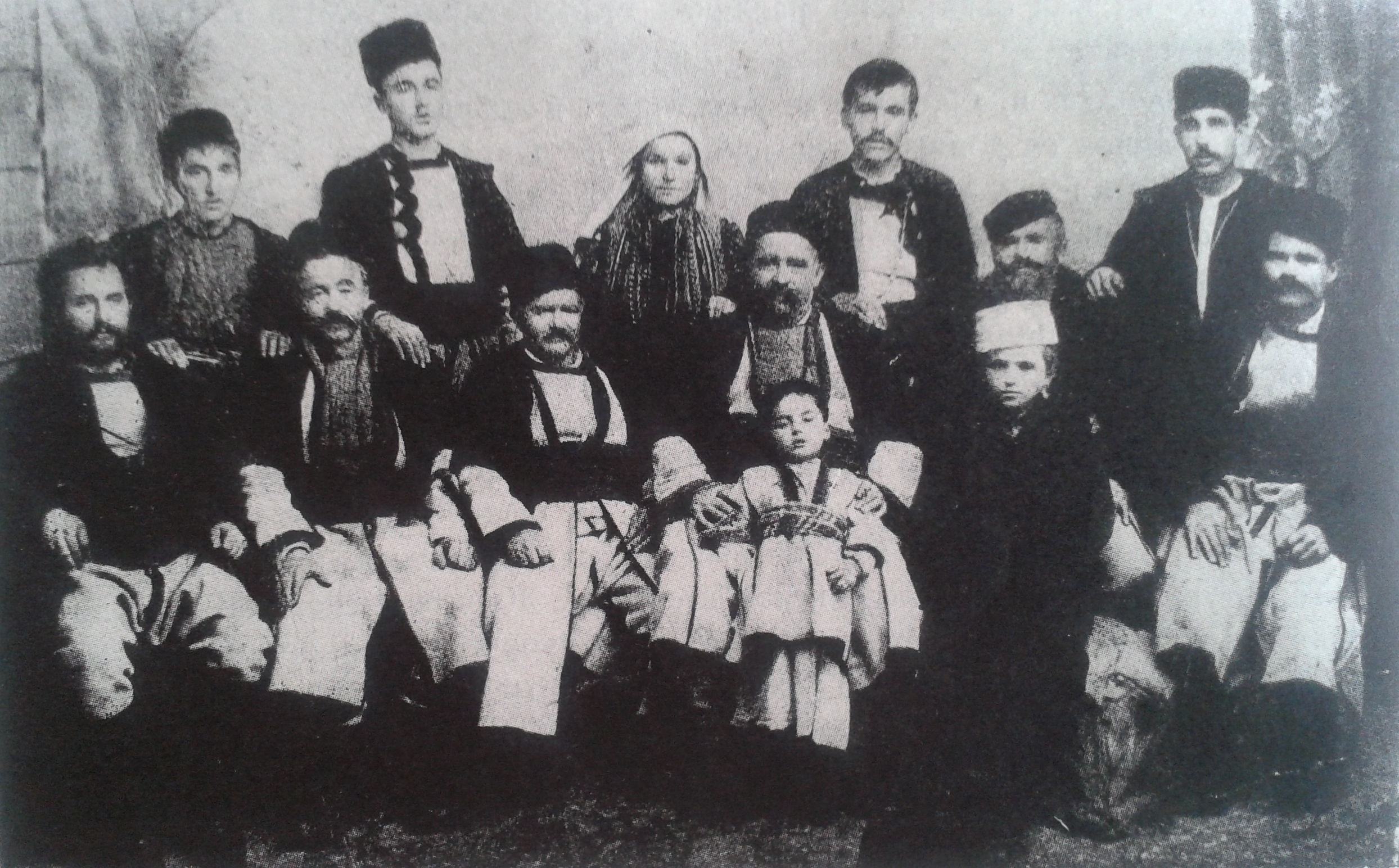 Family photo of Philipovs woodcarvers